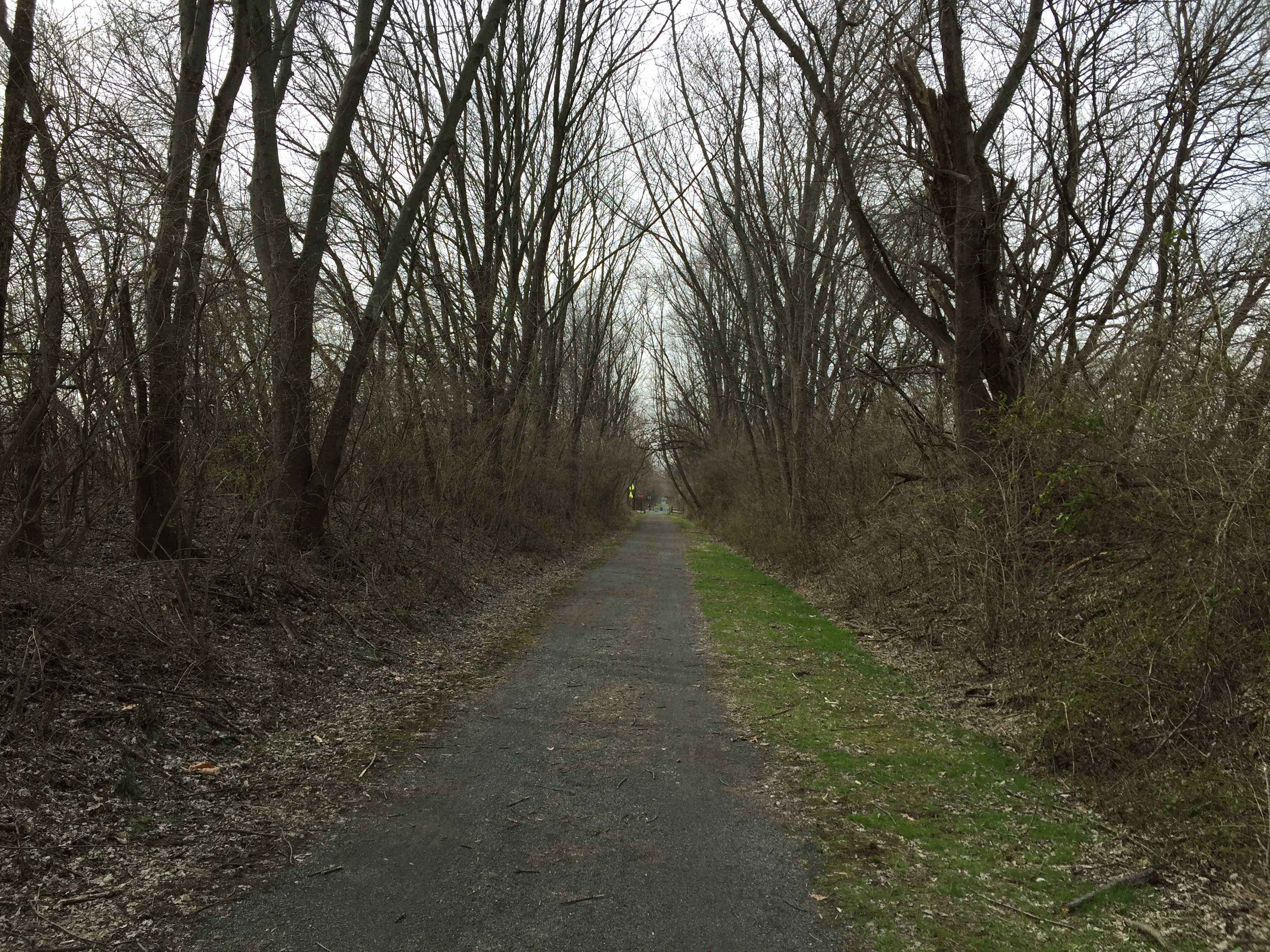 The Nor-Bath Trail near Northampton, Pennsylvania